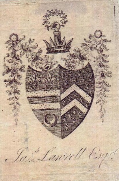 Bookplate of James Laurell (died 1799), British East India Company official.